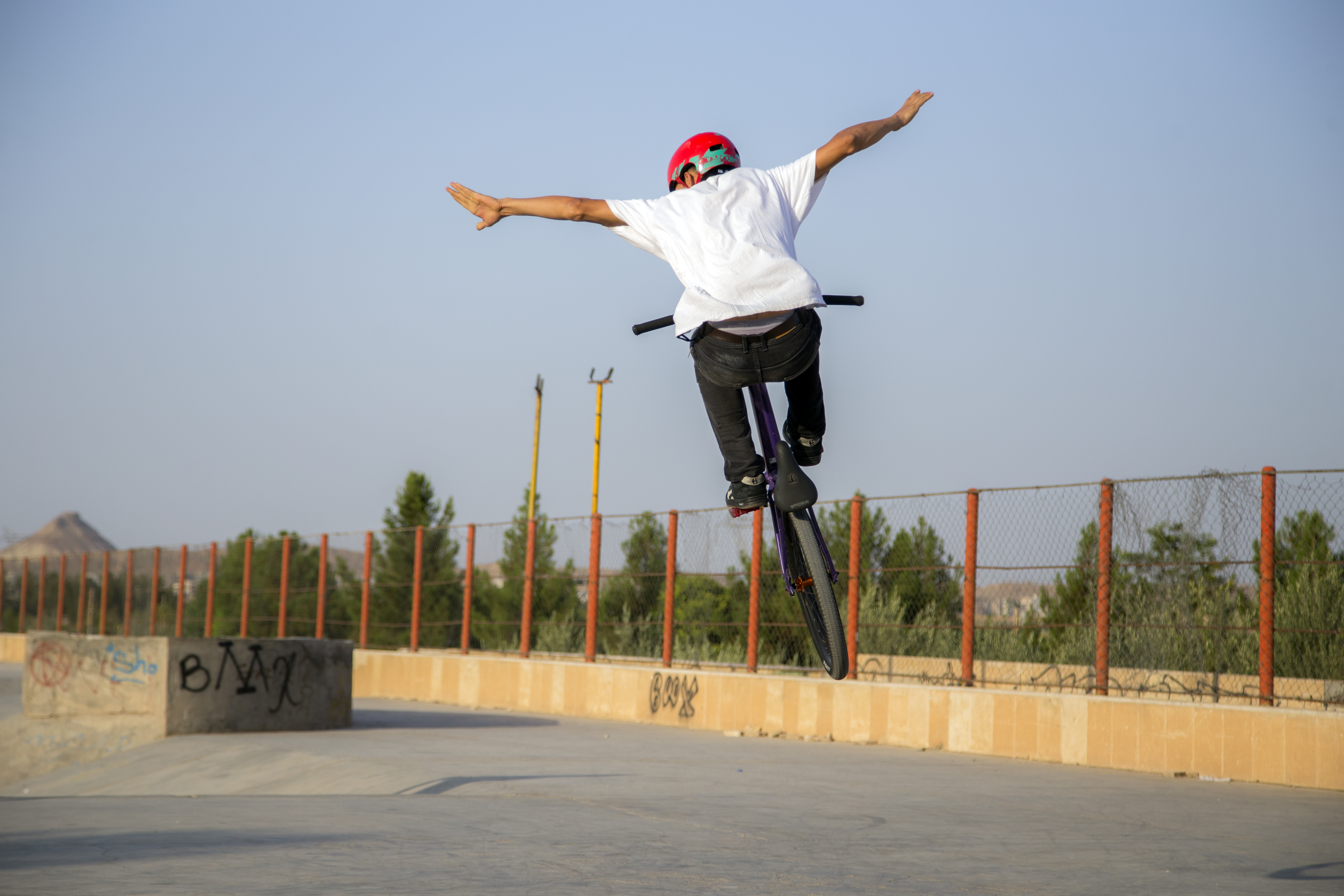 BMX BMX, an abbreviation for bicycle motocross or bike motocross, is a cycle sport performed on BMX bikes, either in competitive BMX racing or freestyle BMX, or else in general on- or off-road recreation. BMX began when young cyclists appropriated motocross tracks for fun, racing and stunts, eventually evolving specialized BMX bikes and competitions.